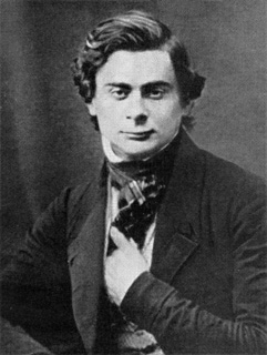 Young Huxley RN at 21; daguerrotype